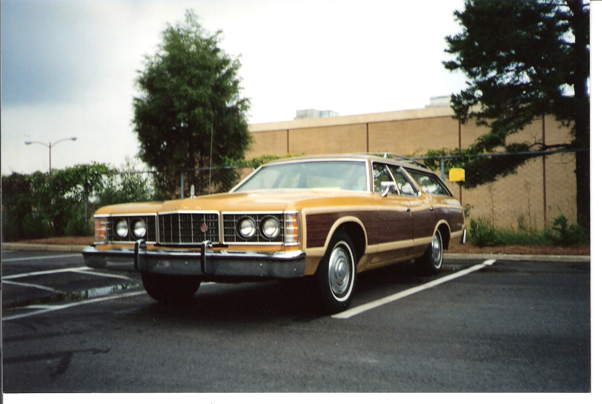 1973 Ford LTD Country Squire station wagon I photographed